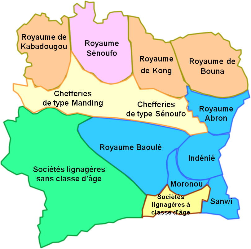 Precolonial political situation in Côte d'Ivoire with the different kingdoms, tribal societies with or without age classes.